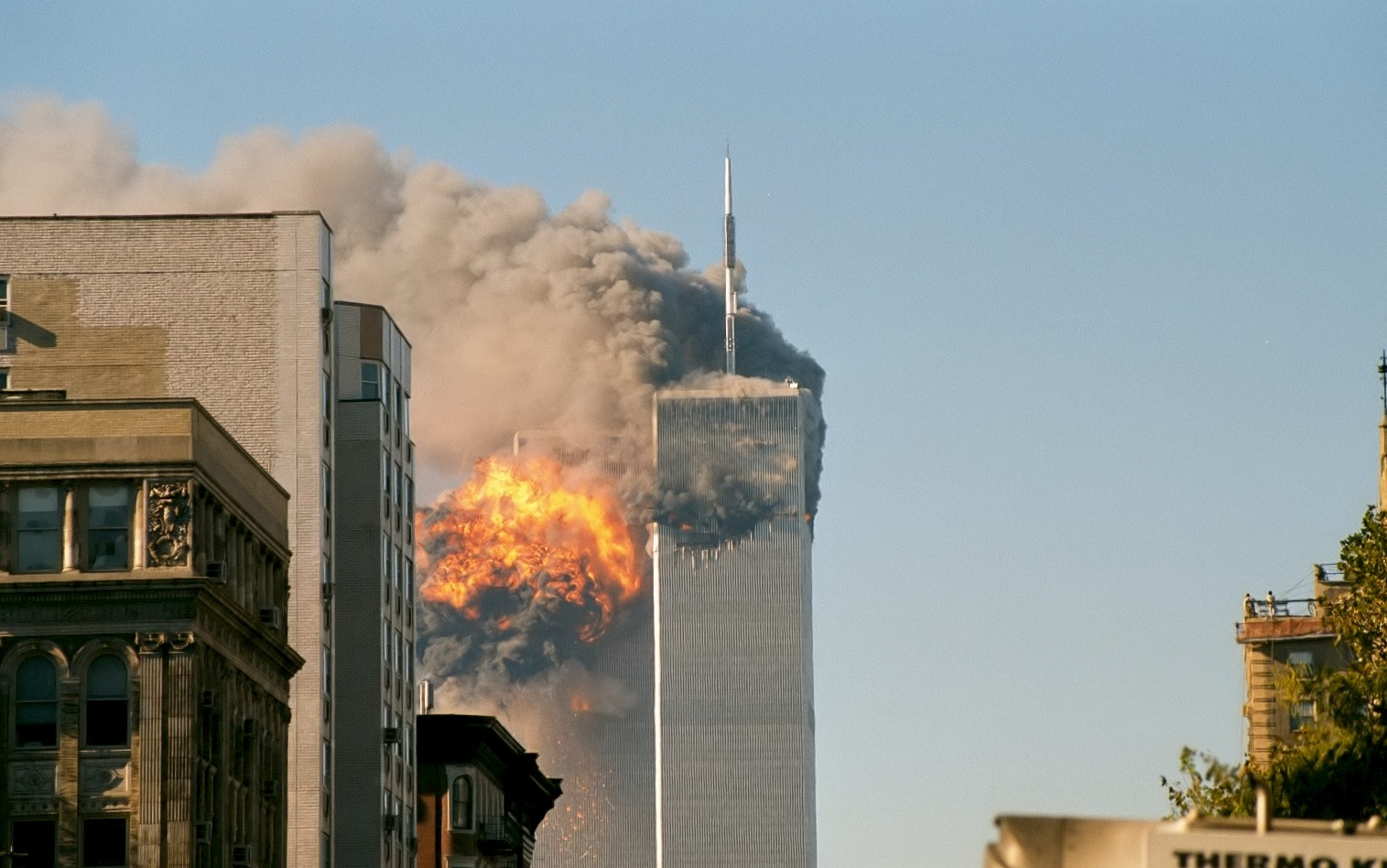 United Airlines Flight 175 crashes into the south tower of the World Trace Center complex in New York City during the September 11 attacks